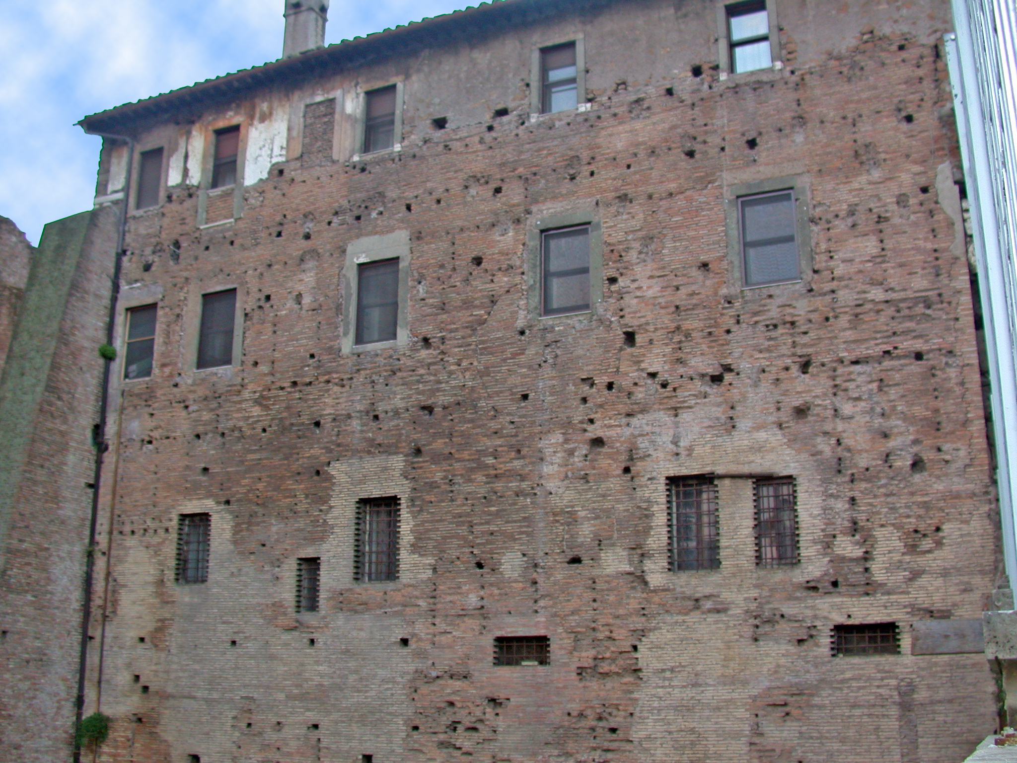 Rome, Pax temple (or Pax Forum): brick wall with holes where was the Forma Urbis Severiana, marble slabs with a plan of the city of Rome in roman imperial times. Personal photo (november 2005) by MM in it.wiki